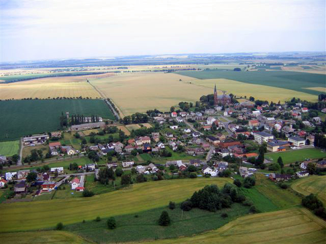 Aerial view of Sudice (Opava District), Czech Republic. Formerly Zauditz also Czauditz, located in Upper Silesia.